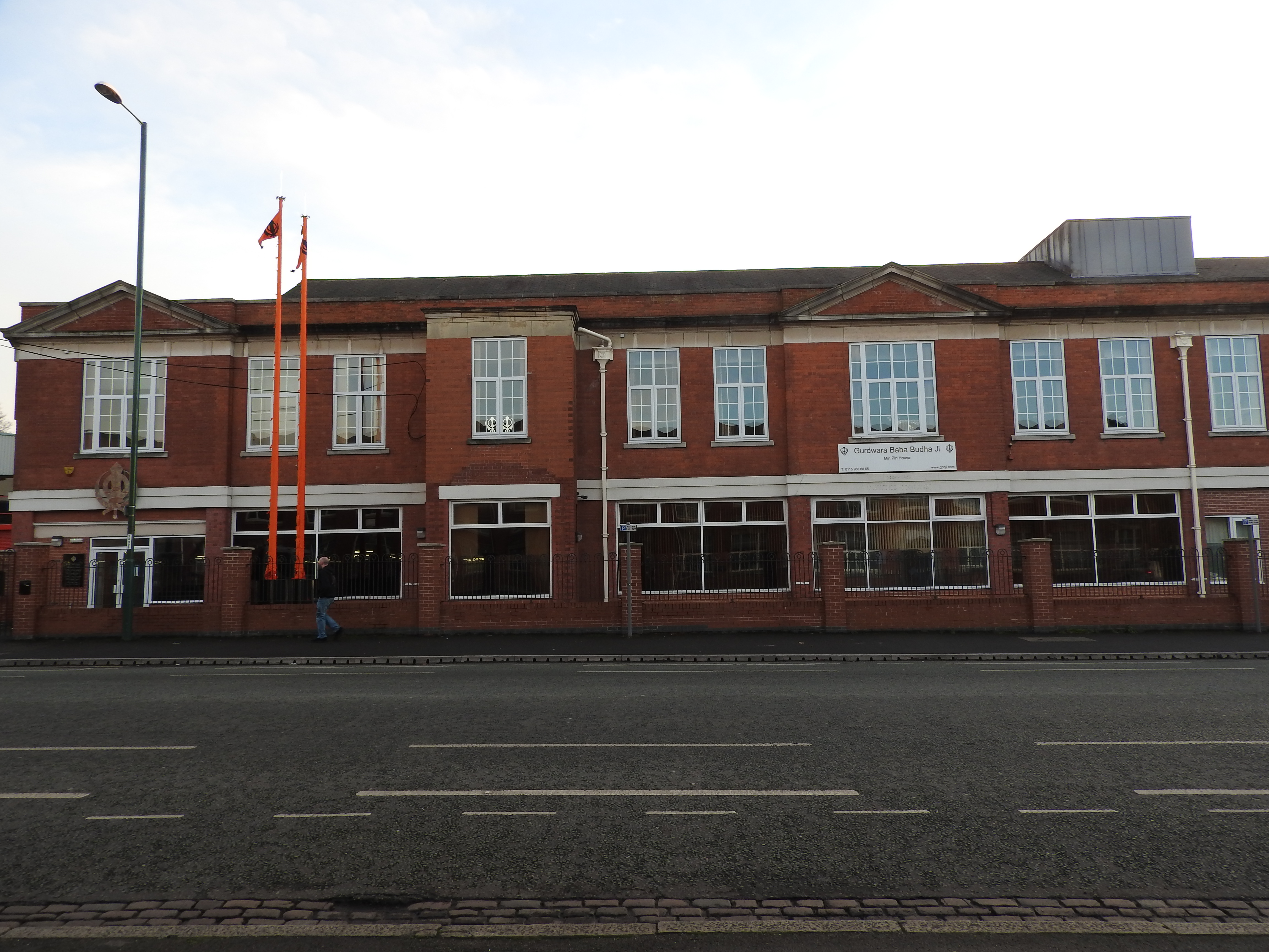 Gurdwara in Nottingham